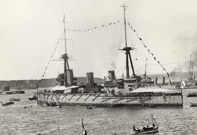 The Indefatigable class battle cruiser HMAS Australia in Sydney Harbour shortly after the first entry of the Australian Fleet Unit into the harbour. The light cruisers HMAS Sydney and HMAS Melbourne are in the background. The ships are 'fully dressed' with pennants.